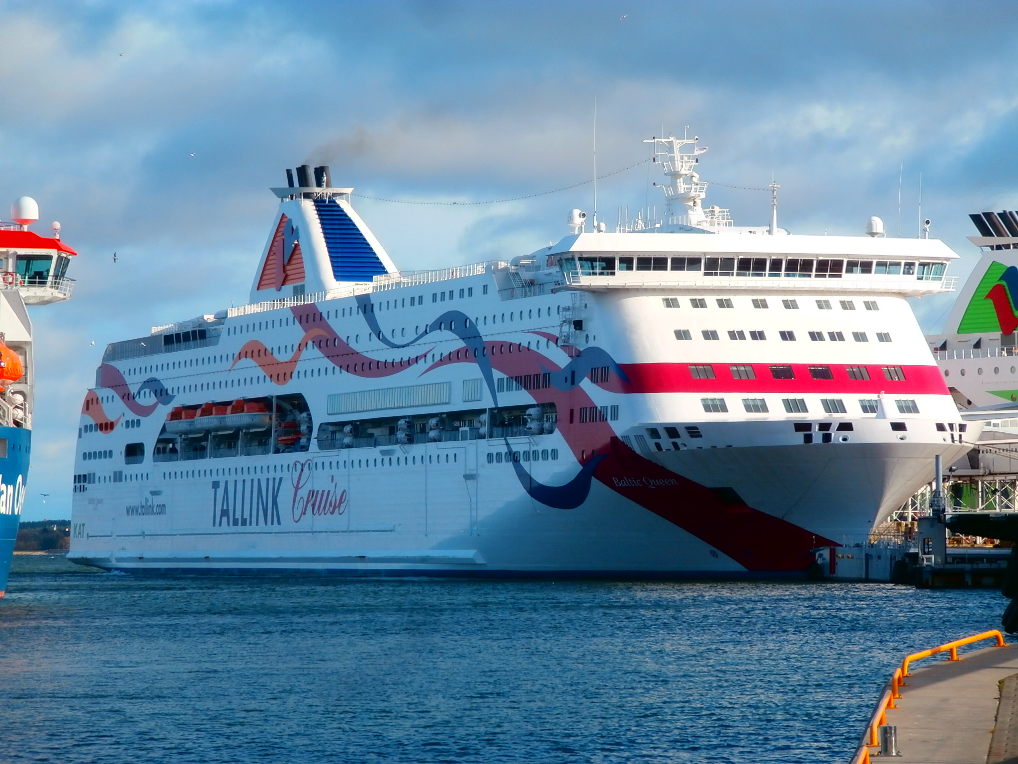 Baltic Queen in Port of Tallinn 29 October 2016 (Nexus on the left and Star on the right)